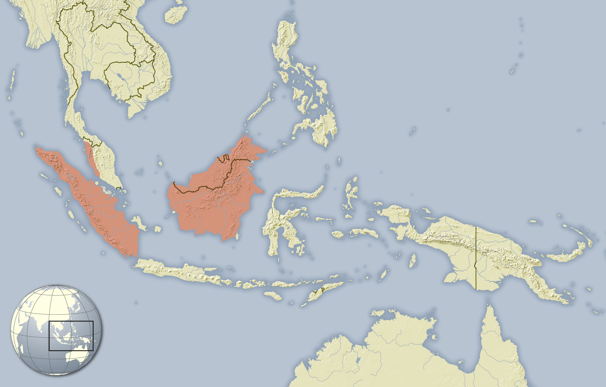 Distribution map of the long-tailed porcupine